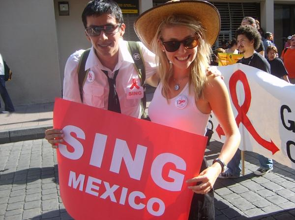 Muestras de apoyo para Sing